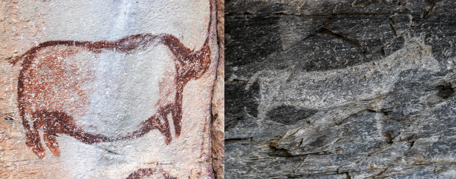 Rock art painted in Tsodilo, Botswana. Image showing the Red and the White rock art found at the site.